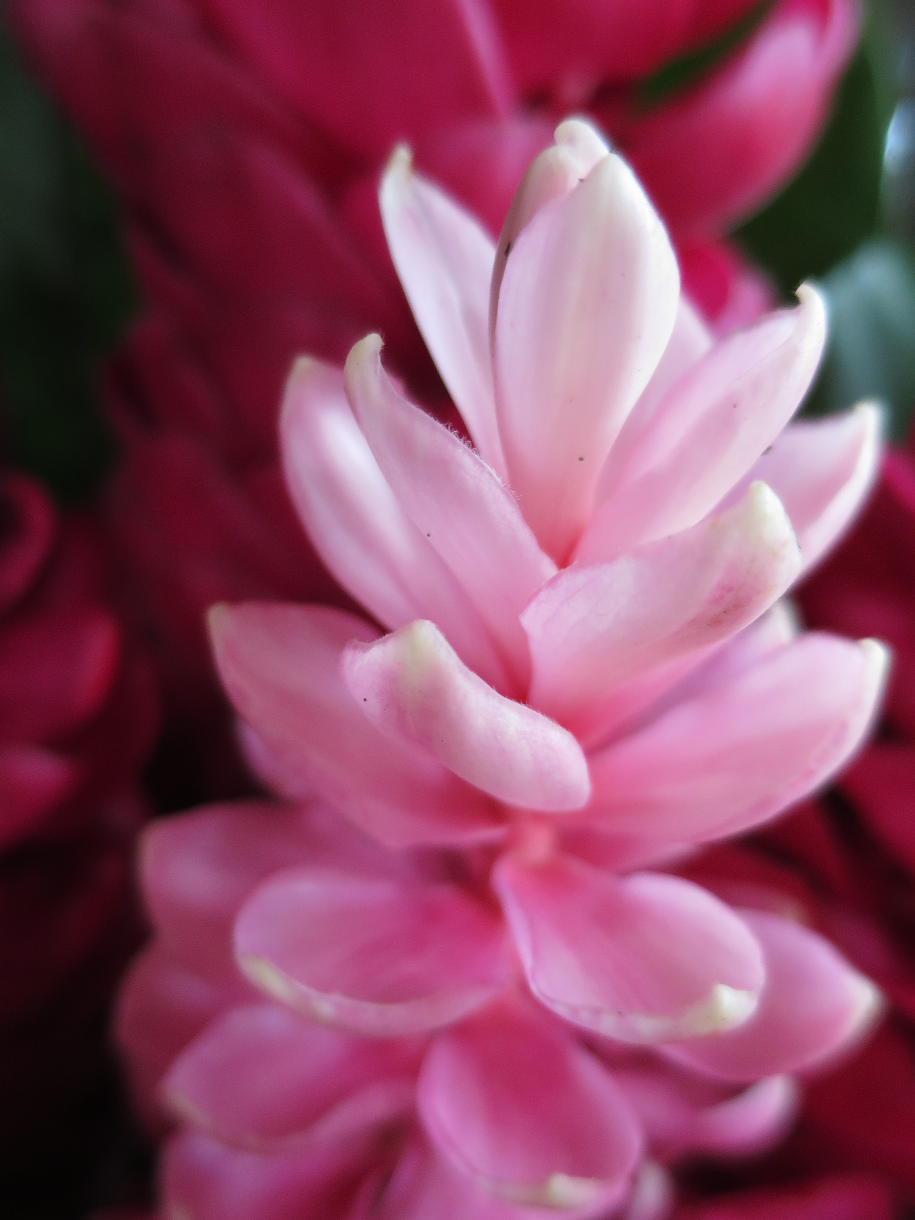 One of the many beautiful flowers in Kirakira that the local people often put in arrangements.